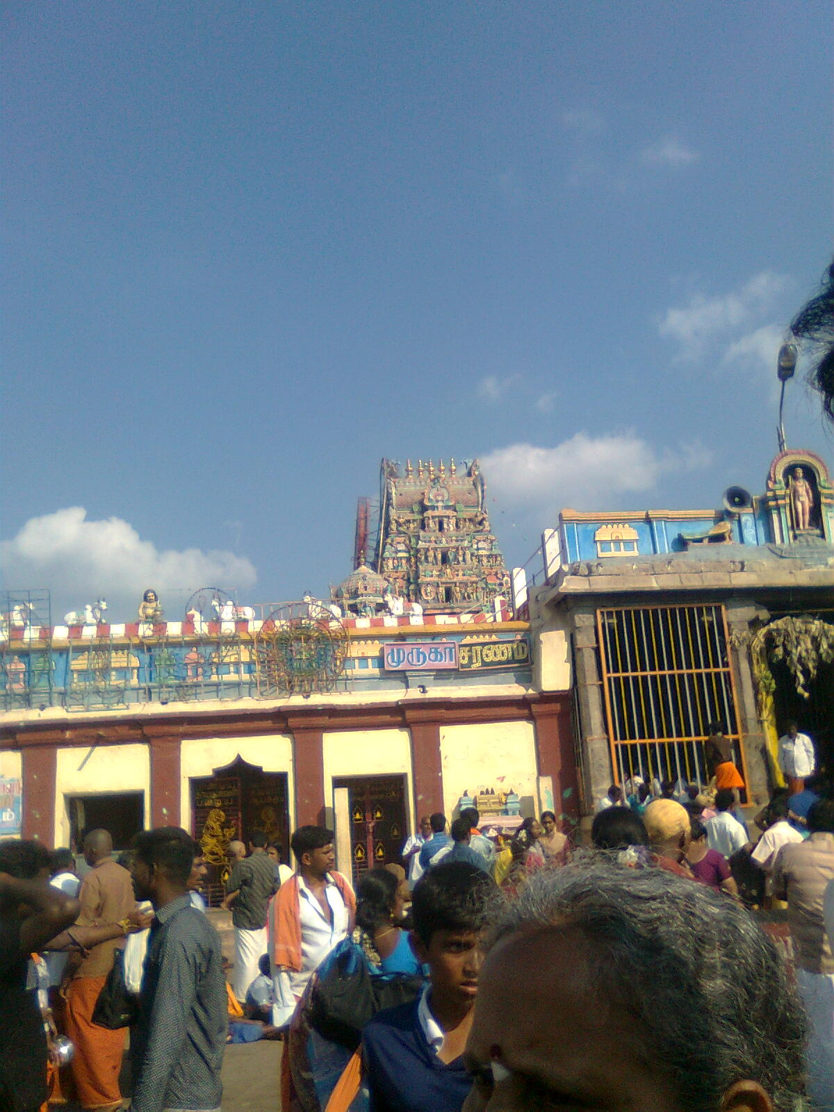 palani temple